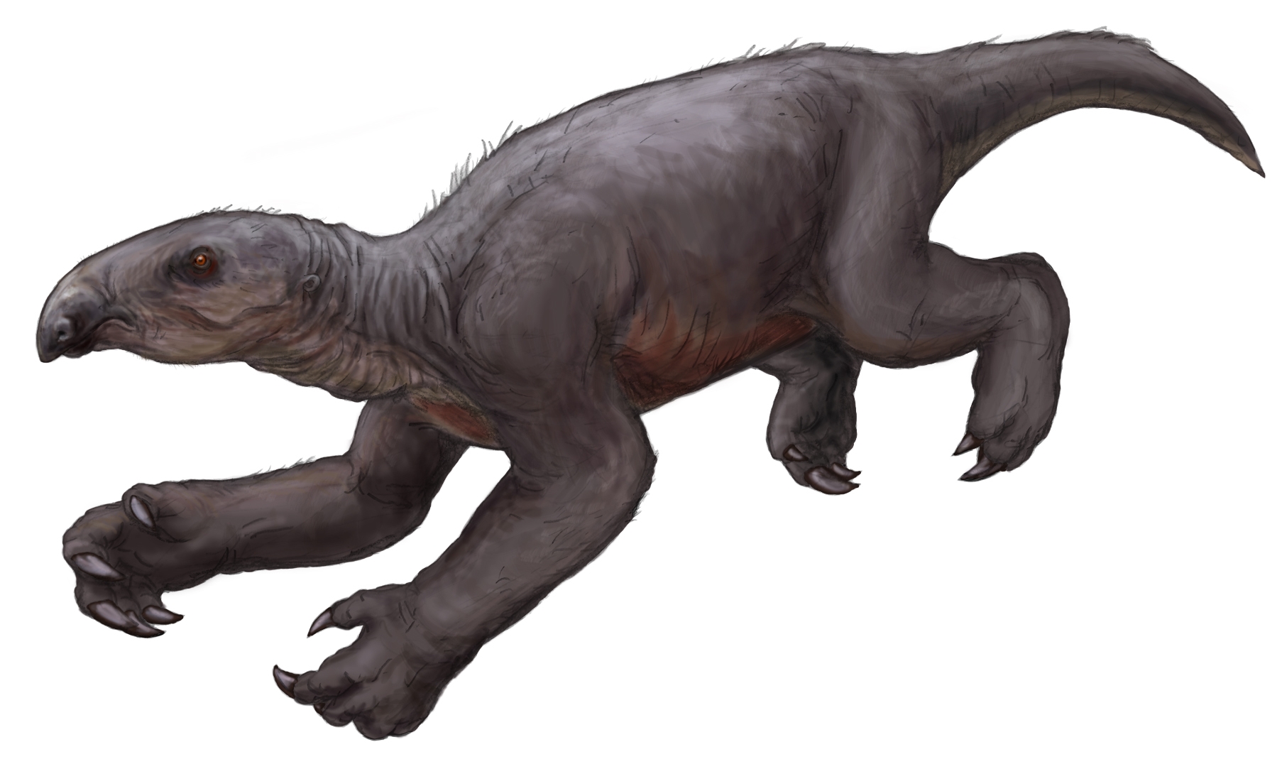 Restoration of Thalassocnus natans. Proportions based on skeletal mount, hairless skin based on figure published here:[1]